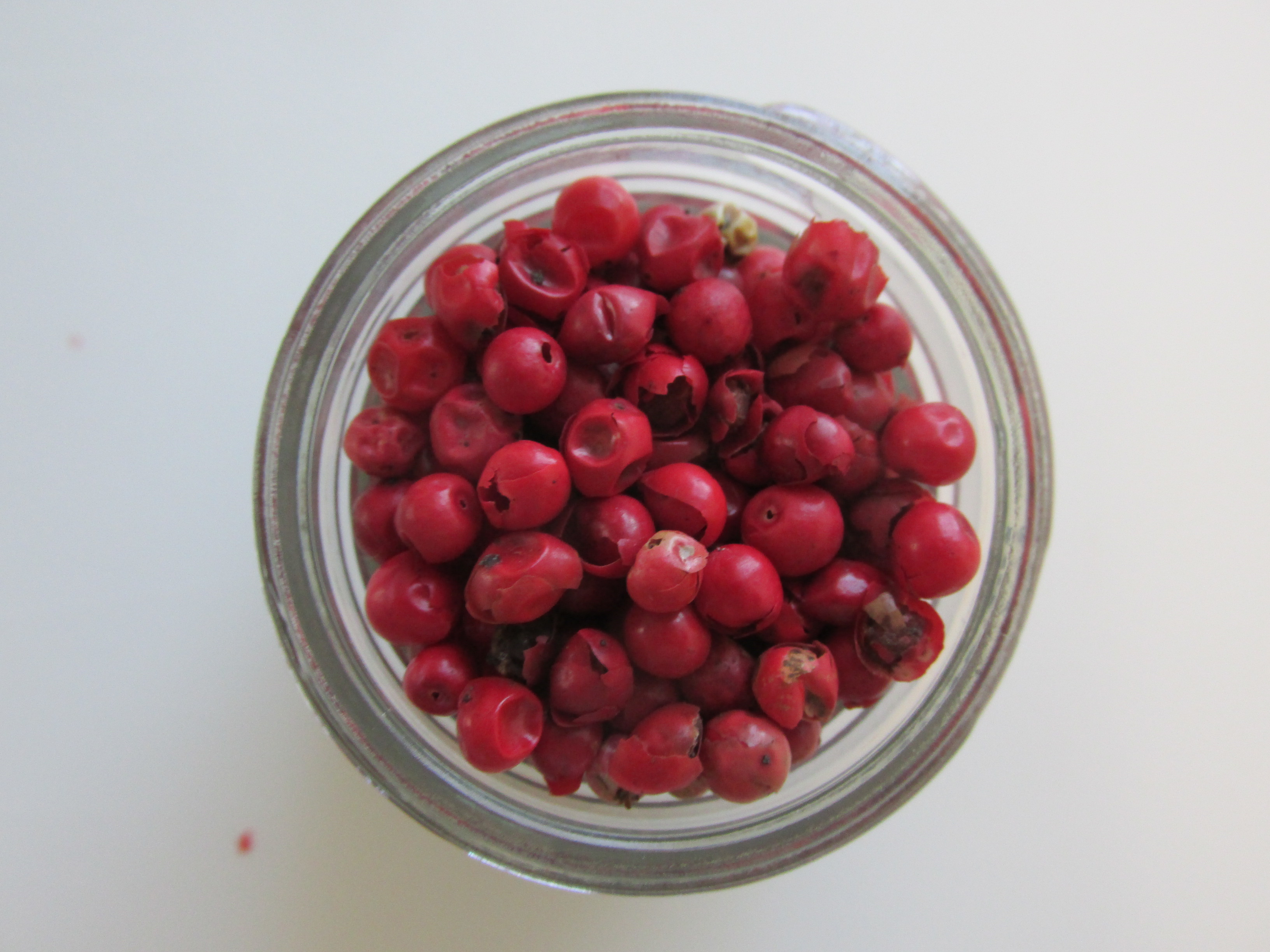 Pink Peppercorns, Penzeys Spices, Arlington Heights Massachusetts - 2014